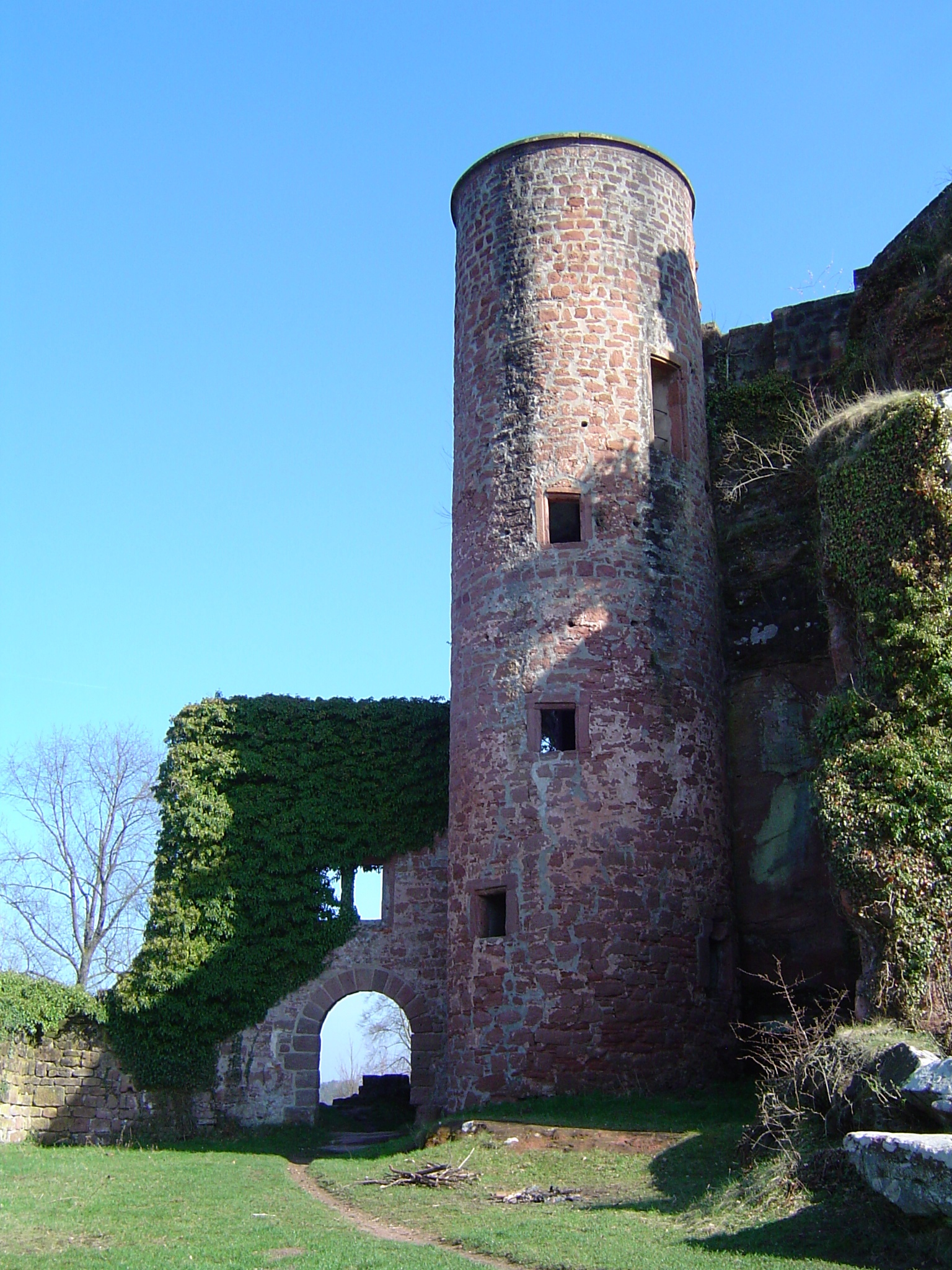 Ruin of castle neudahn (near Dahn, palatinate forest)